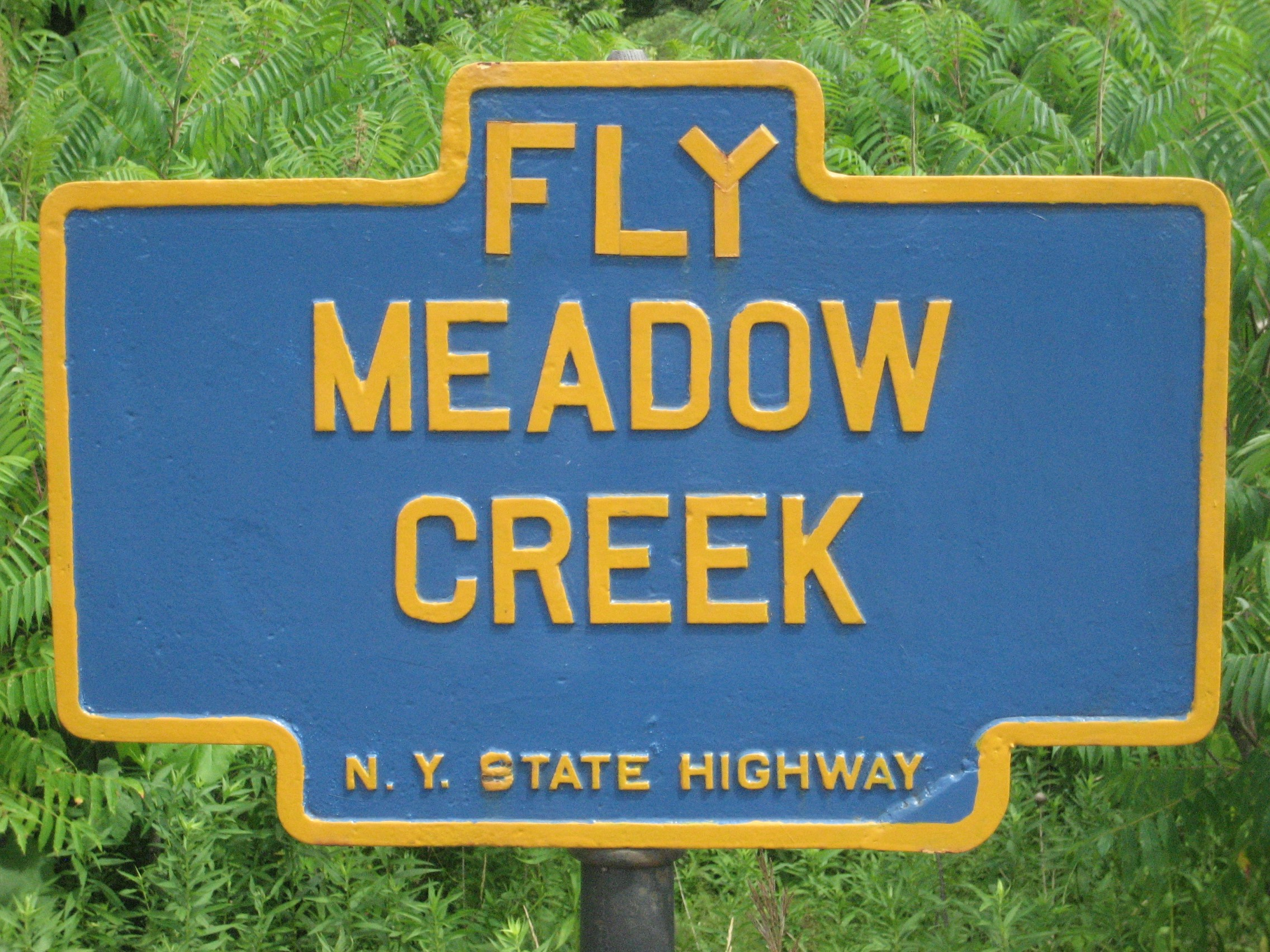 Historic marker of Fly Meadow Creek, Oxford, NY.